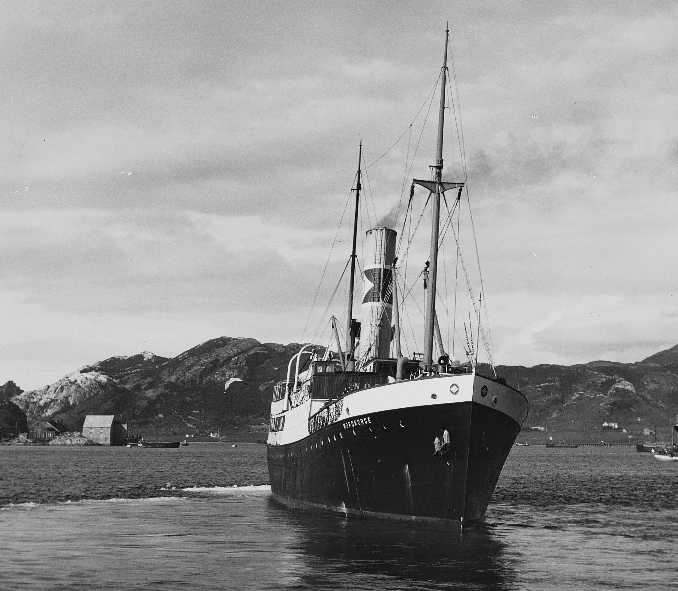 Norwegian passenger ship DS Nordnorge, built in 1924. This ship sailed in the coastal express service (Hurtigruten) between 1936 and 1940. She is one of four ship with this name.